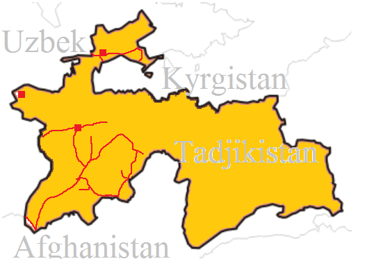 Map showing Tadjik Railway system